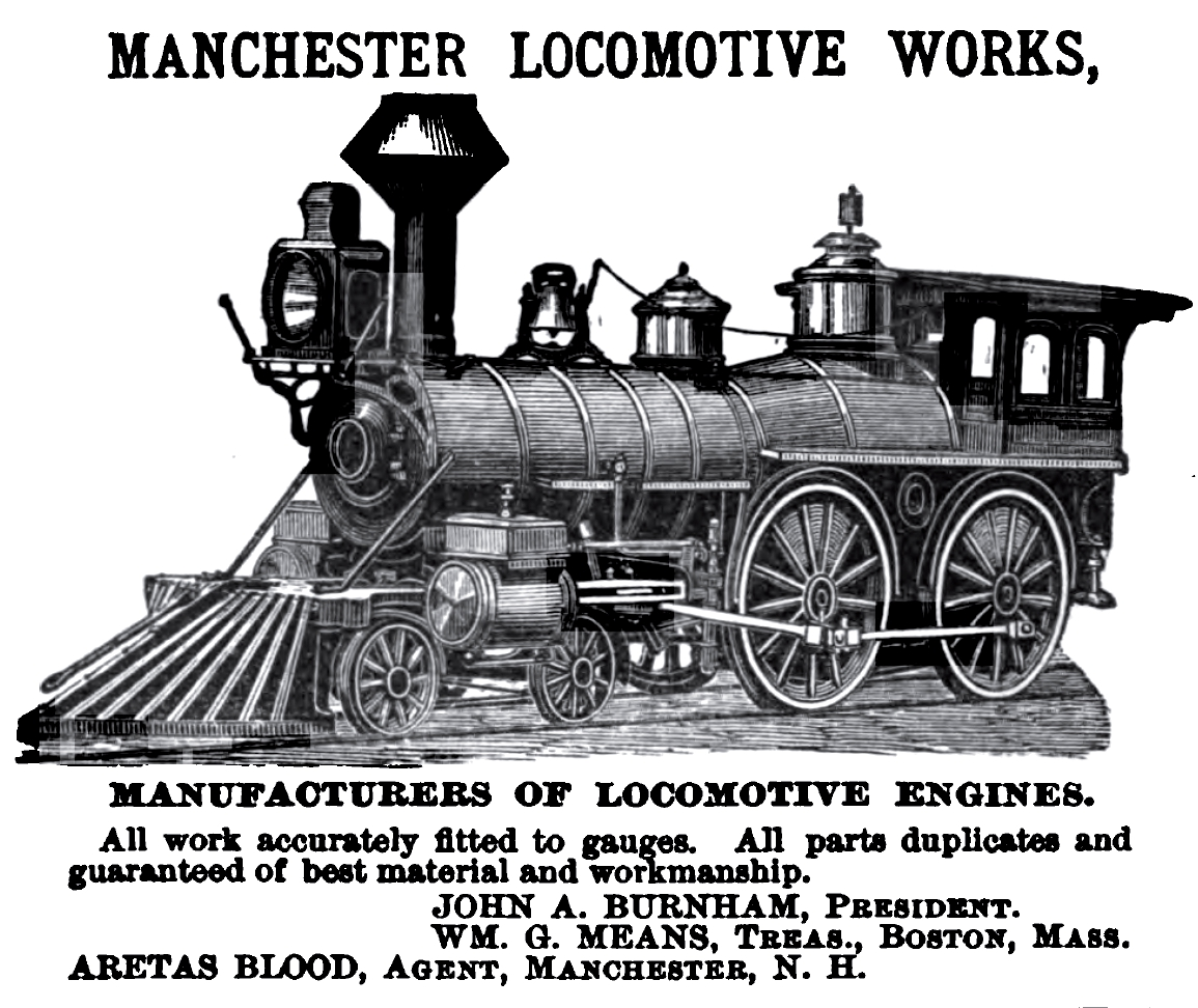 Advertisement for Manchester Locomotive Works. From the 1875 edition of the "Catechism of the Locomotive" by M.N. Forney.